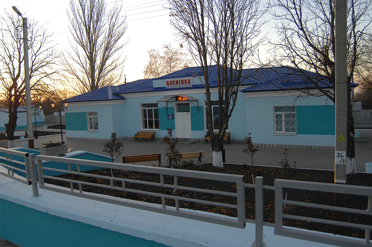 Olenivka Railway Station in Olenivka, Volnovakha Raion, Donetsk Oblast, Ukraine